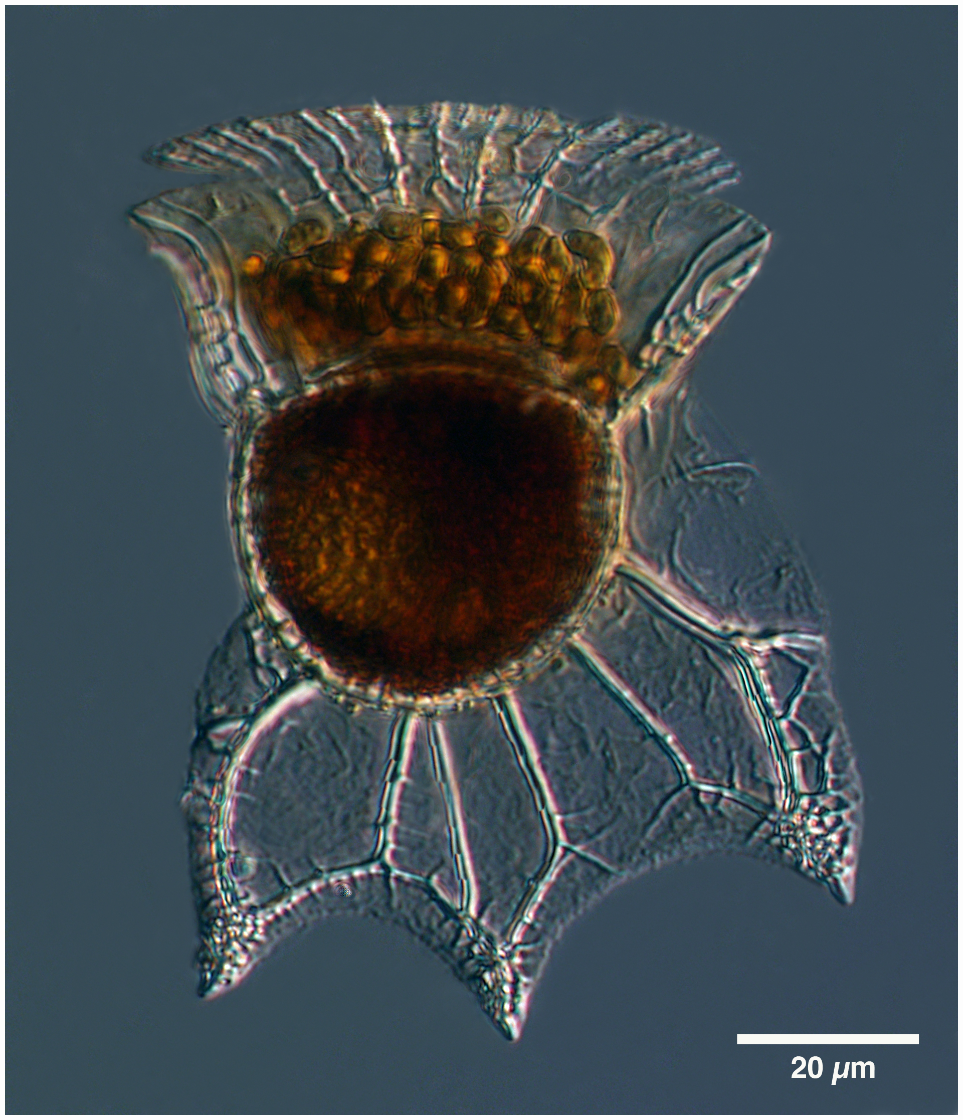 Ornithocercus magnificus from the Bay of Villefranche on Feb 18th 2014. The little orange balls are symbiotic cyanobacteria. Lugol's-fixed specimen, Z-stack of images made using a 40x objective and DIC optics.